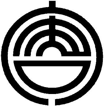 Karatsu Saga chapter